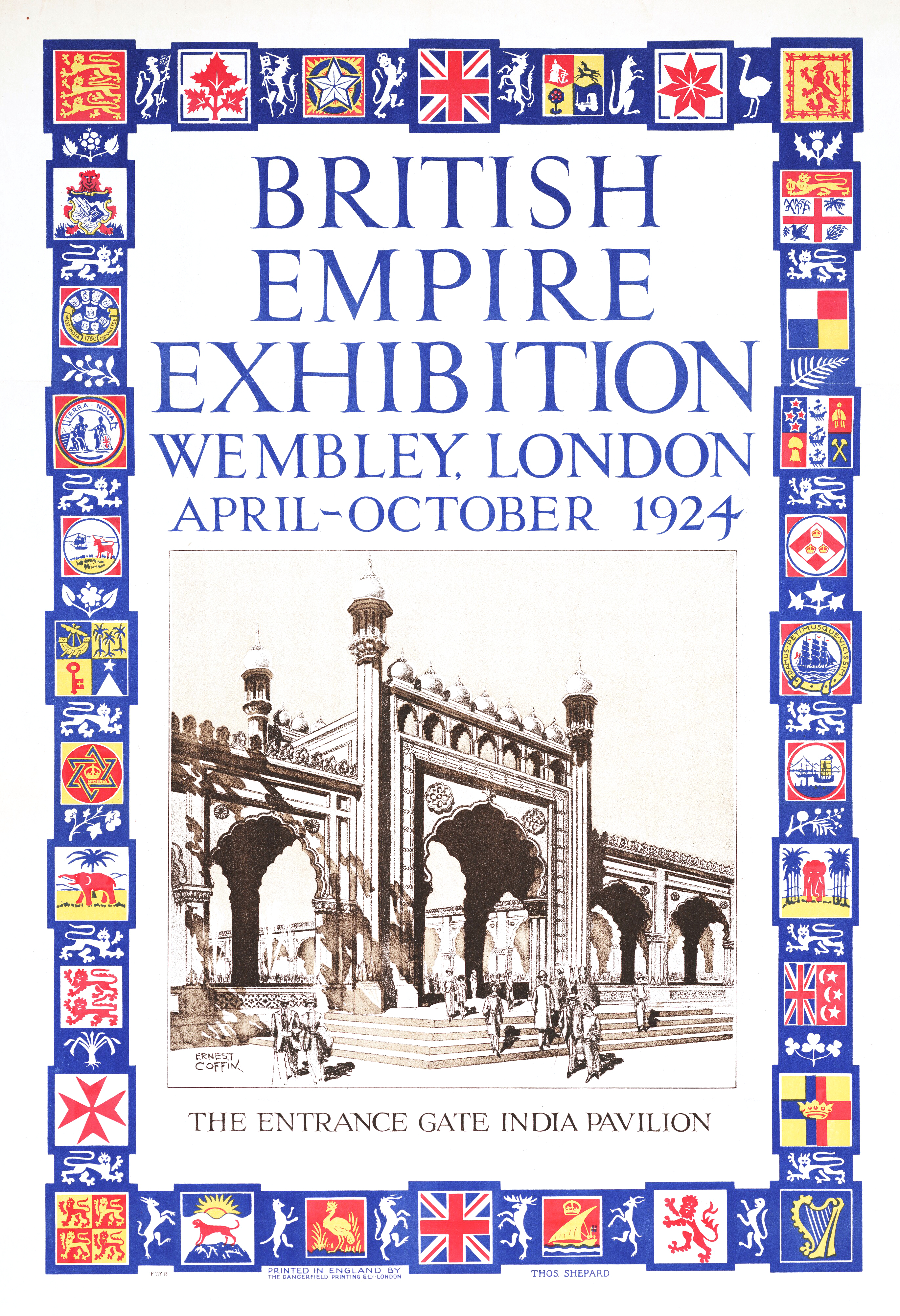 British Empire Exhibition, Wembley, London, April-October 1924. Entrance gate, India pavilion